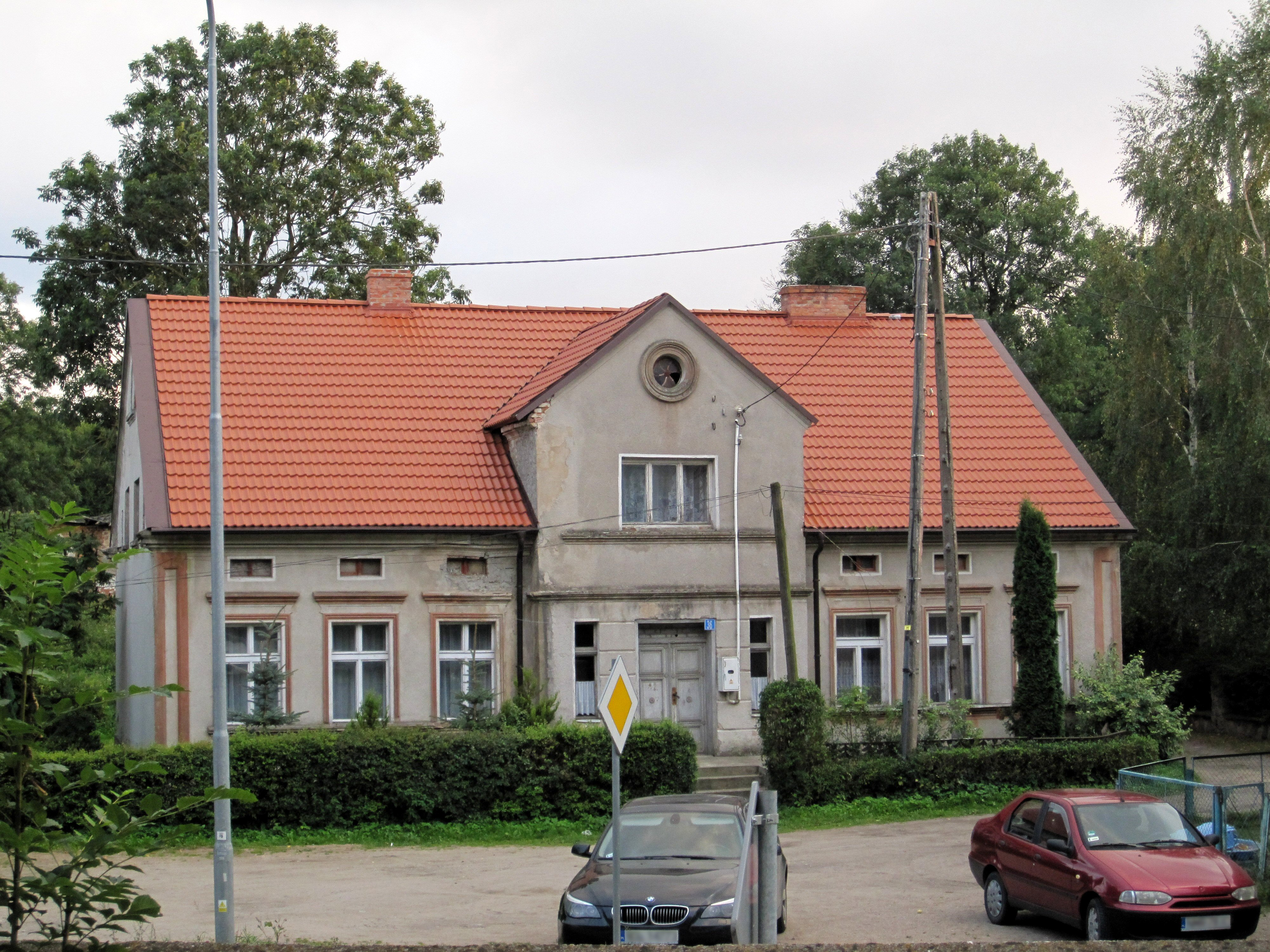 Building in Nawiady